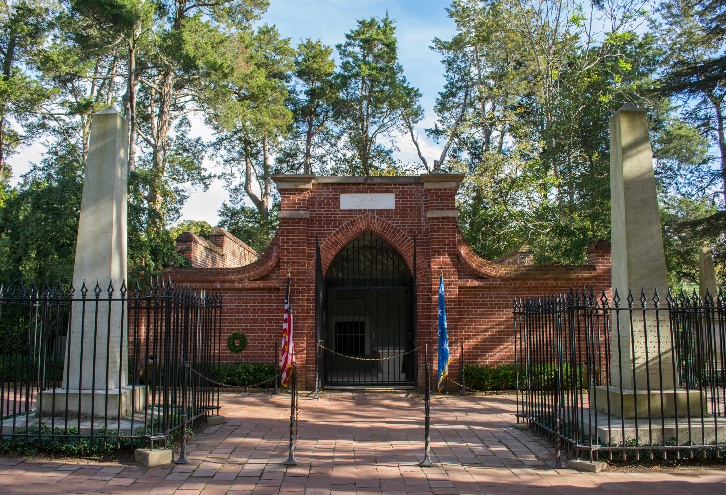 The Washington Family Tomb at Mount Vernon, the home of George Washington, near Mount Vernon, Virginia, in the United States. The memorial grave marker of John Augustine Washington is left. The memorail grave marker of Bushrod Washington is right. A wreath of laurel leaves stands left, ready for a wreath-laying ceremony.